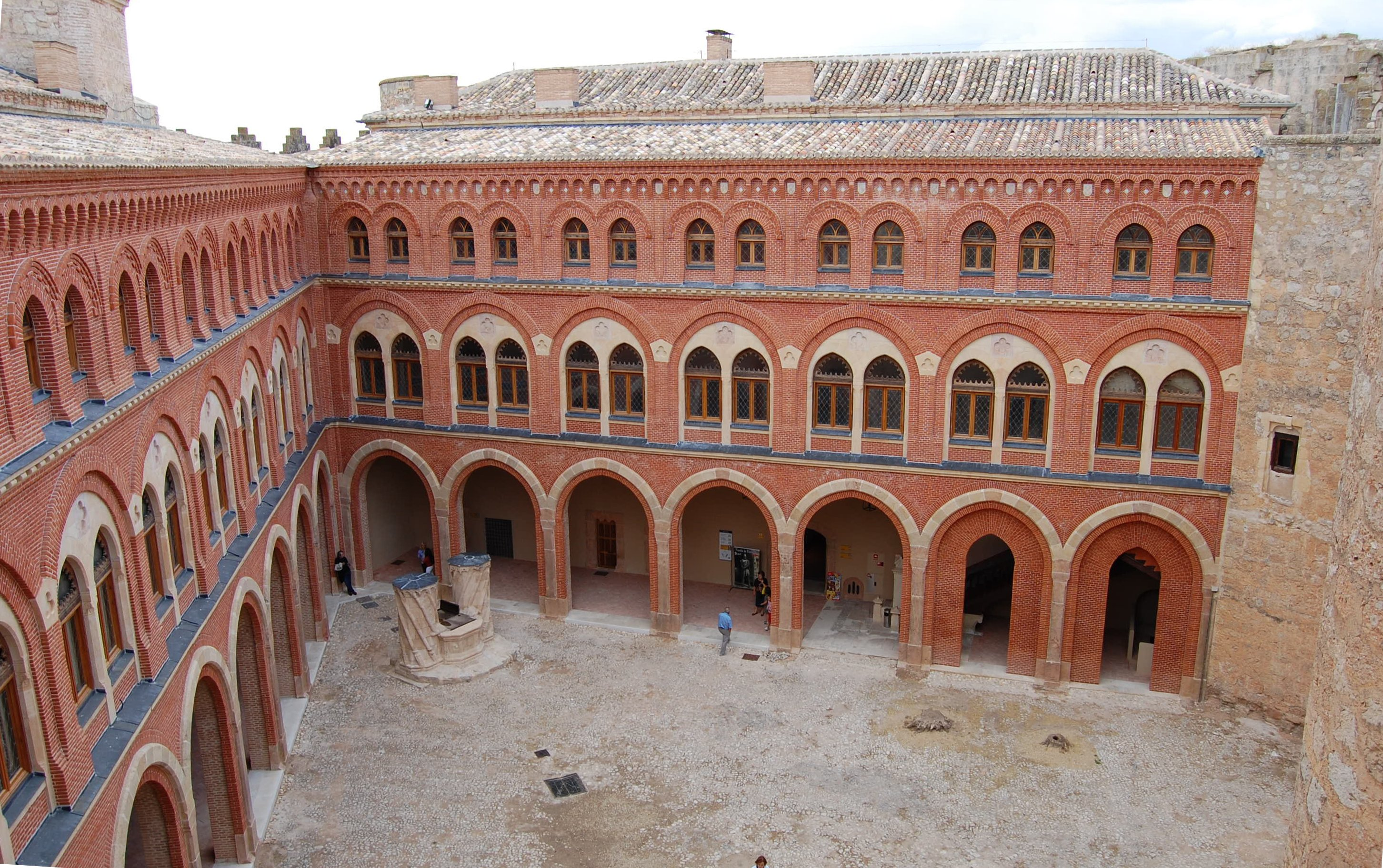 Inside of Belmonte's Castle, Cuenca, Spain.